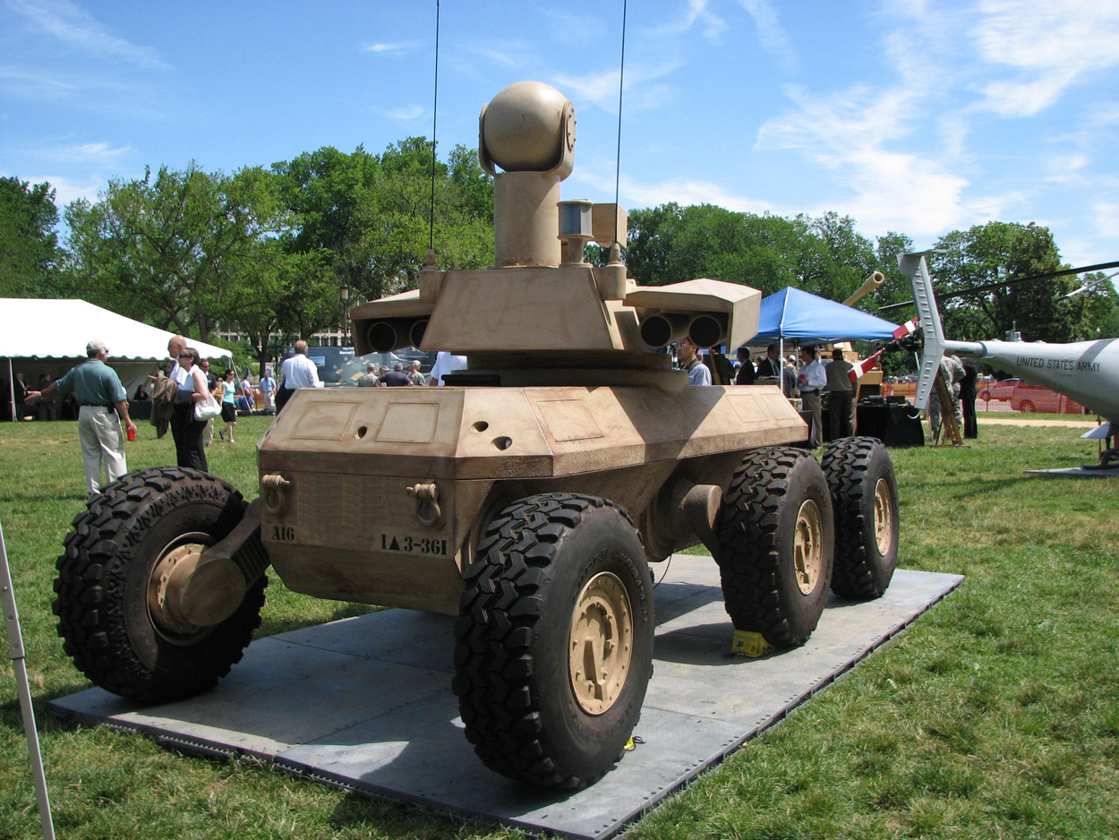 The Armed Robotic Vehicle (ARV) at the FCS National Mall Display 11 June 2008